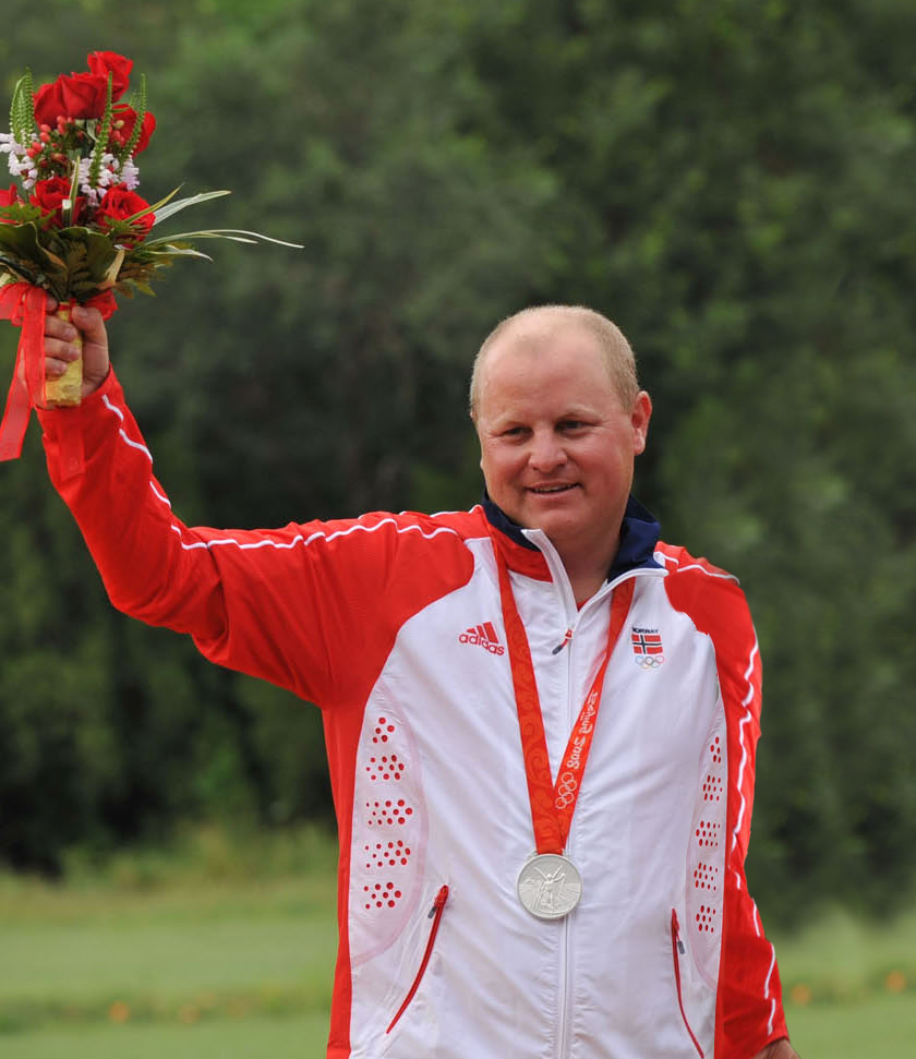 Portrait of Tore Brovold